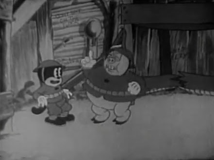 Screenshot from Boom Boom, a 1936 Warner Bros. cartoon.